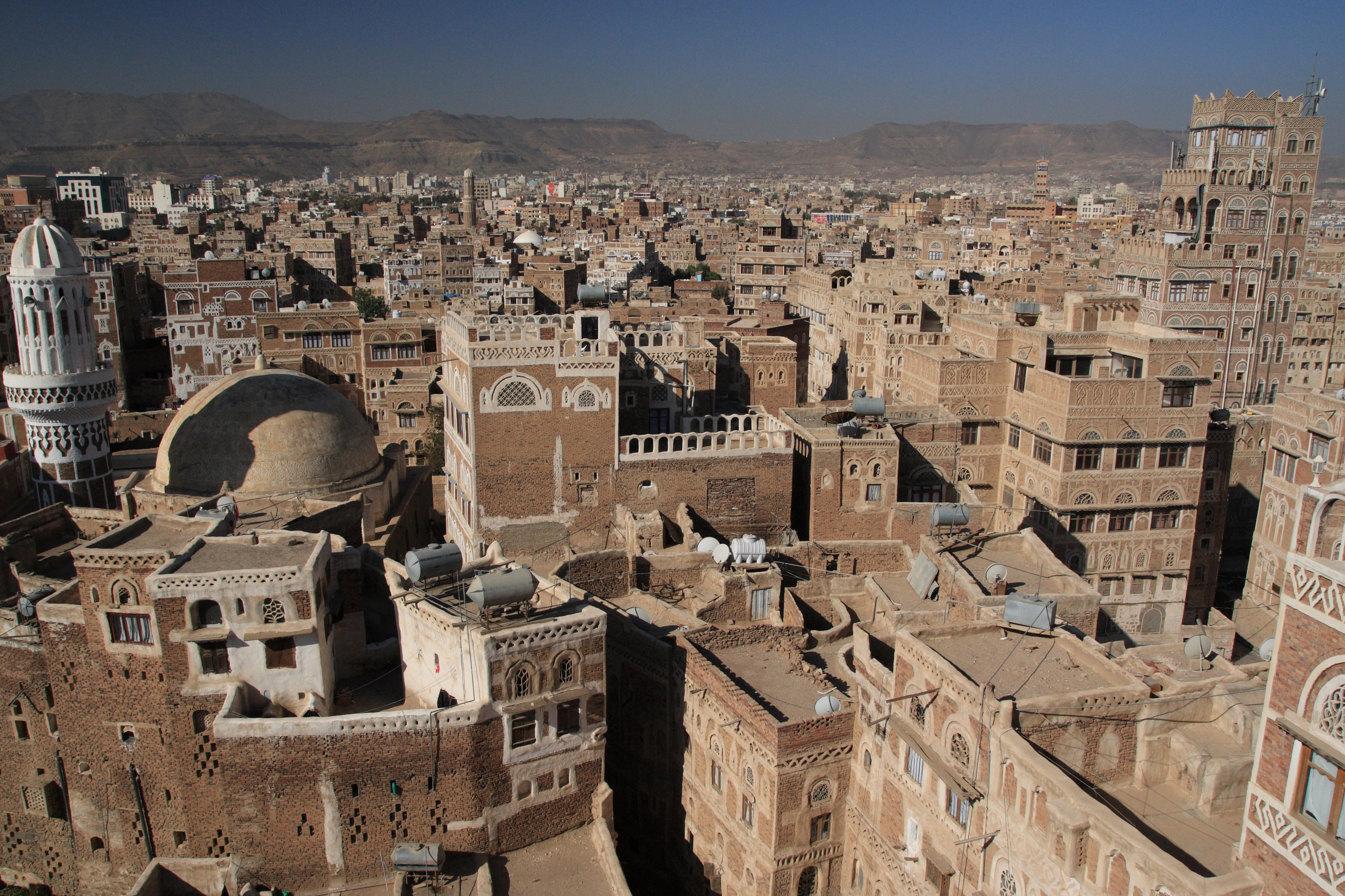 View of Sana'a, Yemen